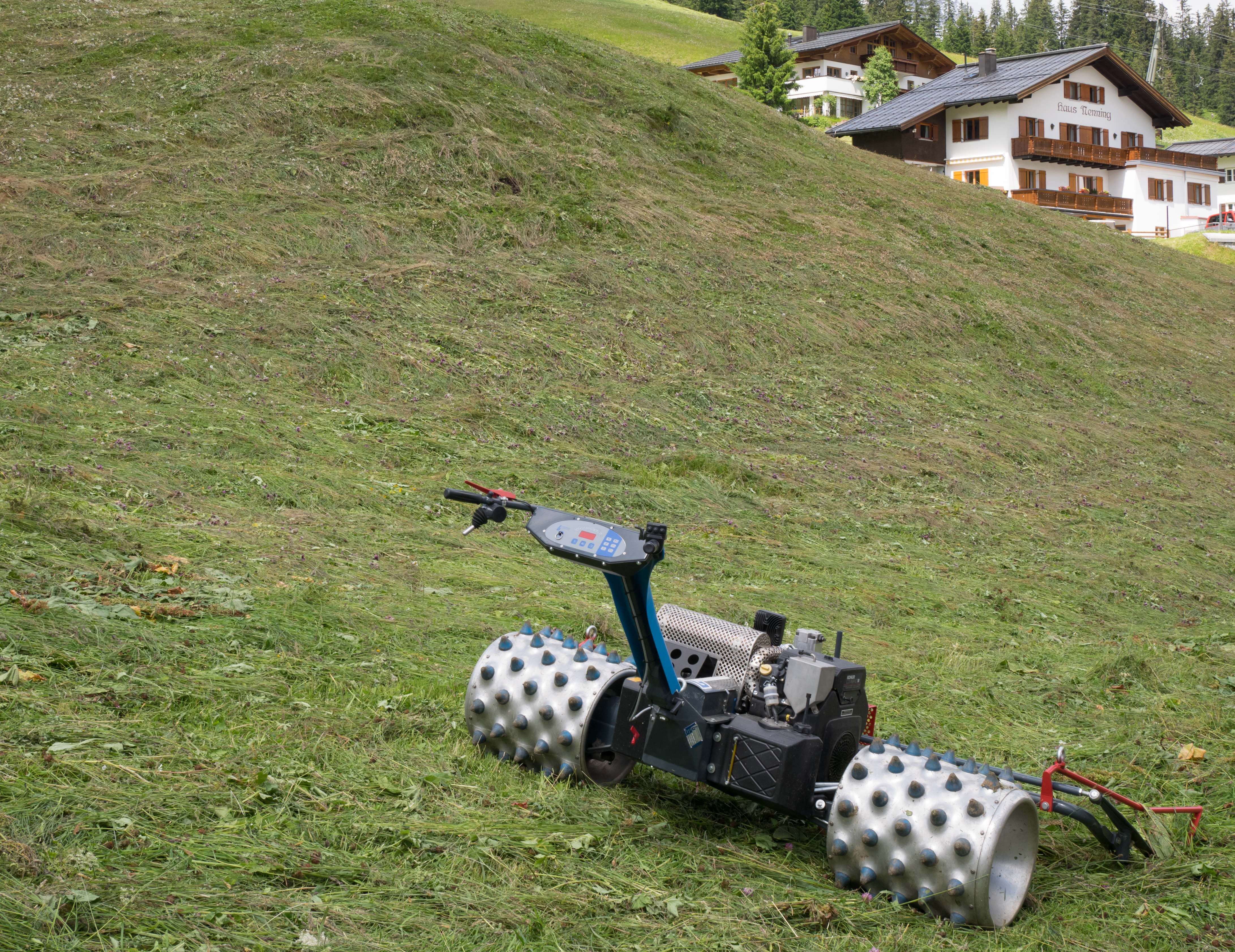 Motor mower for hay harvest in Lech. Vorarlberg, Austria